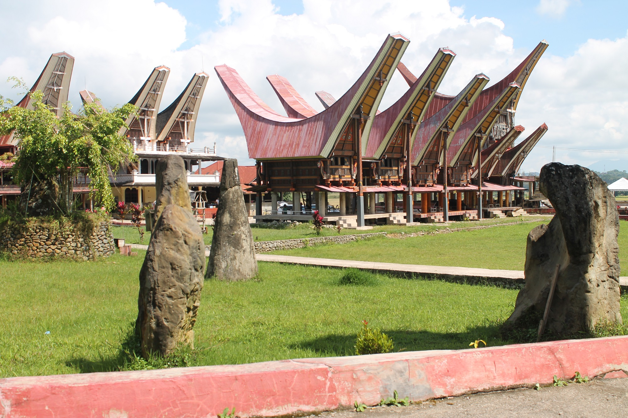 Tongkonan is a traditional house of the Toraja people. The roof is curved like a boat, consisting of a bamboo structure (currently some tongkonan use zinc roof). The location of this Tongkonan is in the Ne'Gandeng Museum, Tagari, North Toraja